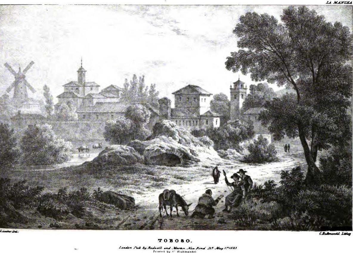 Toboso (work "Views in Spain")